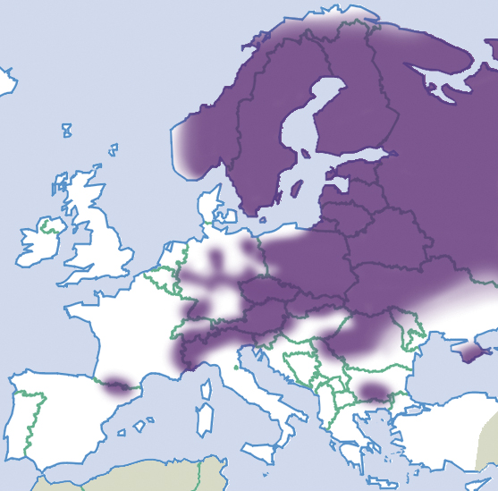 Discus ruderatus (Hartmann, 1821). Distributional range in Europe, scientific state of knowledge of 2012. Source description in English. Light colour indicated rare occurrences or regions where the species could eventually be expected to occur. Dark colour indicated relatively reliable occurrences, as well as regions where the species was expected to occur, and where the species was not known to be extremely rare. Dark colour indications were not necessarily based on published records. Species summary in AnimalBase